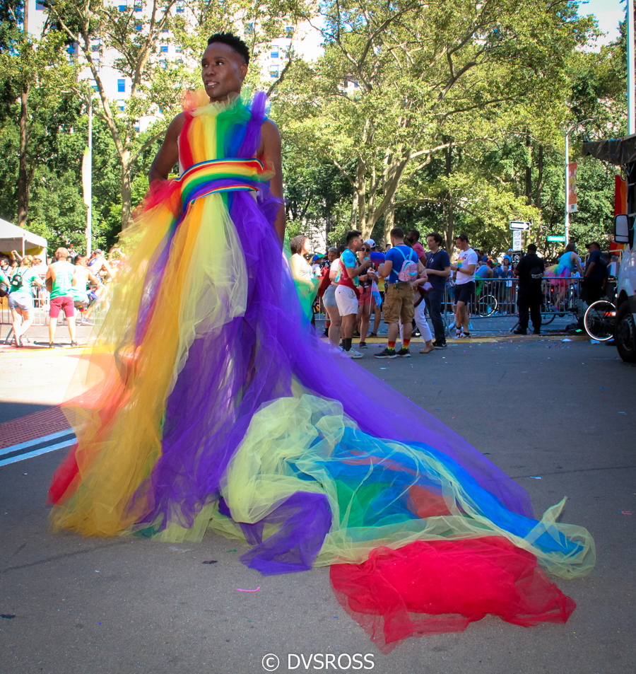 New York Pride 50 - 2019-1178